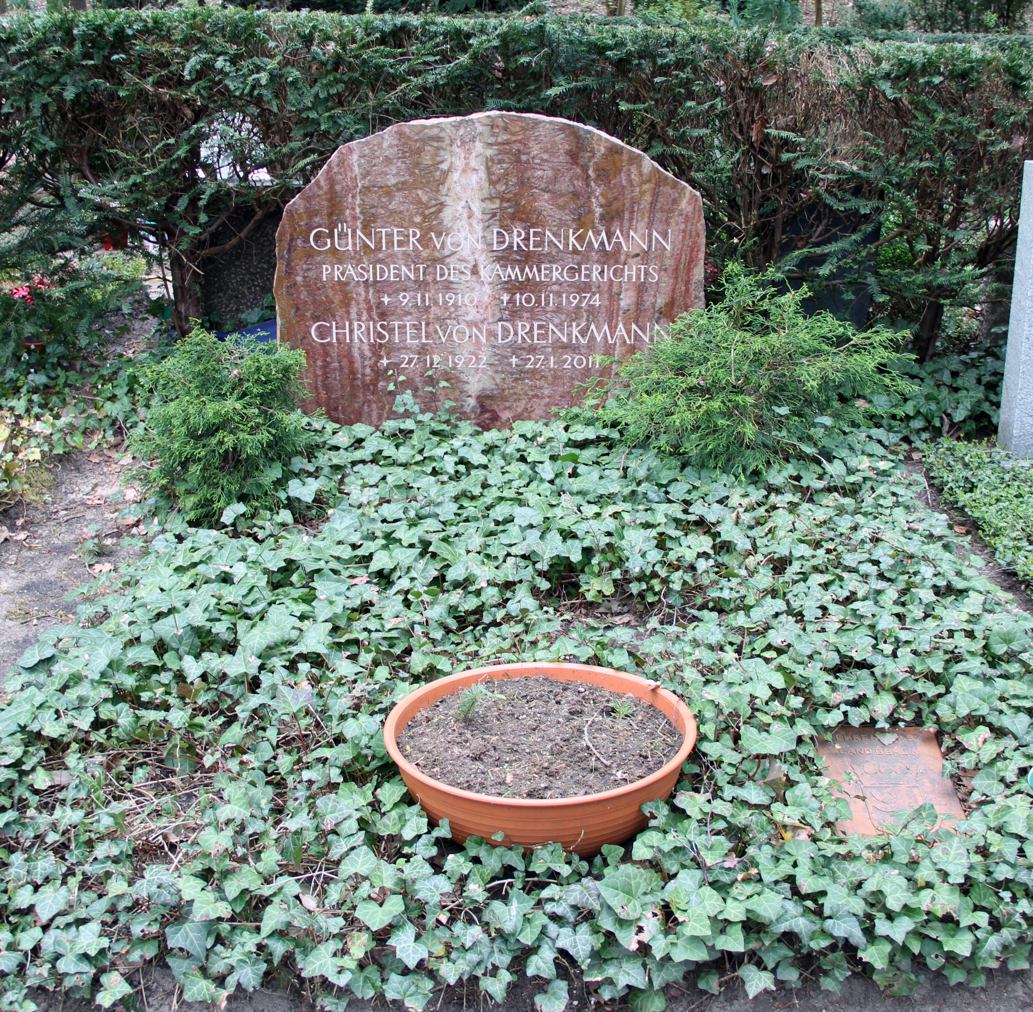 Grave of honor, Günter von Drenkmann, Trakehner Allee 1, Berlin-Westend, Germany